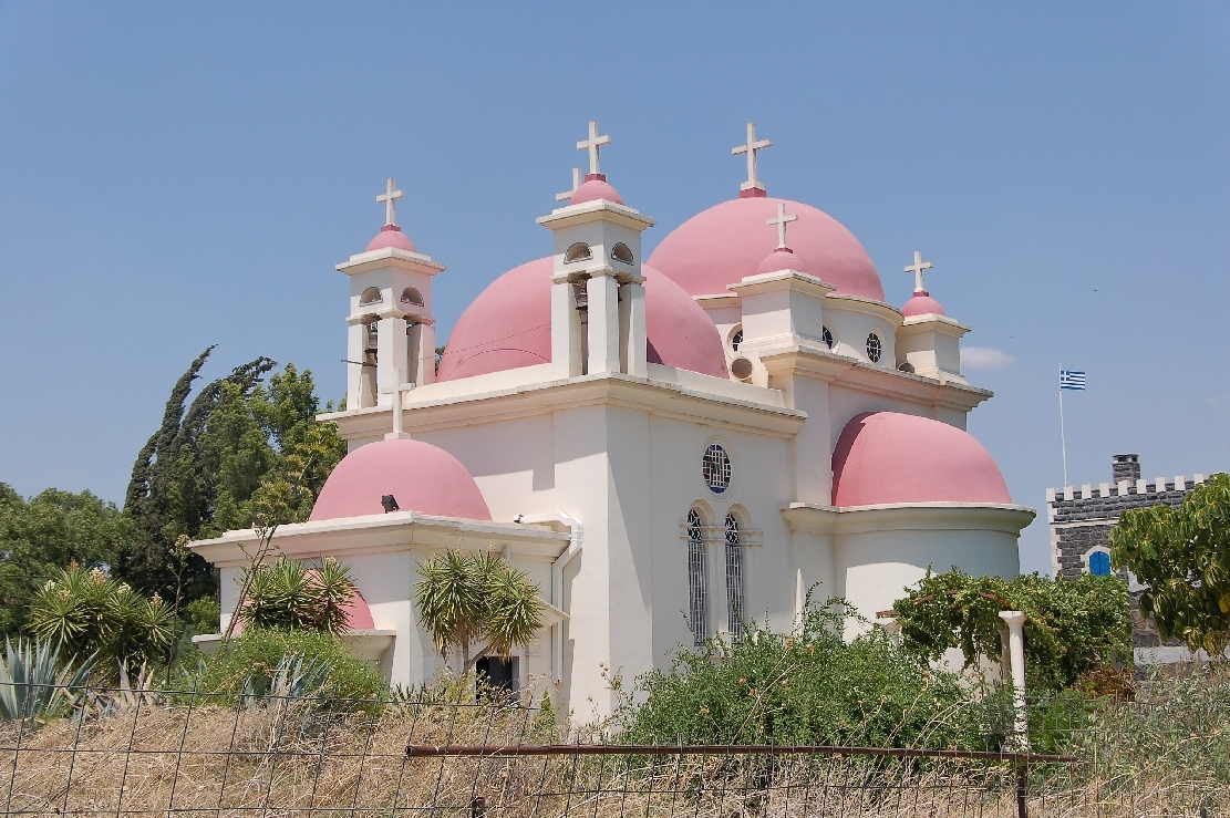 Impressions Wikimania 2011 Nazareth-Galilee Tour